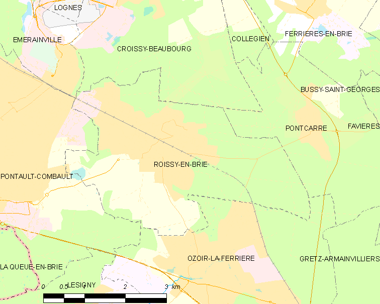 Map of French municipality Roissy-en-Brie